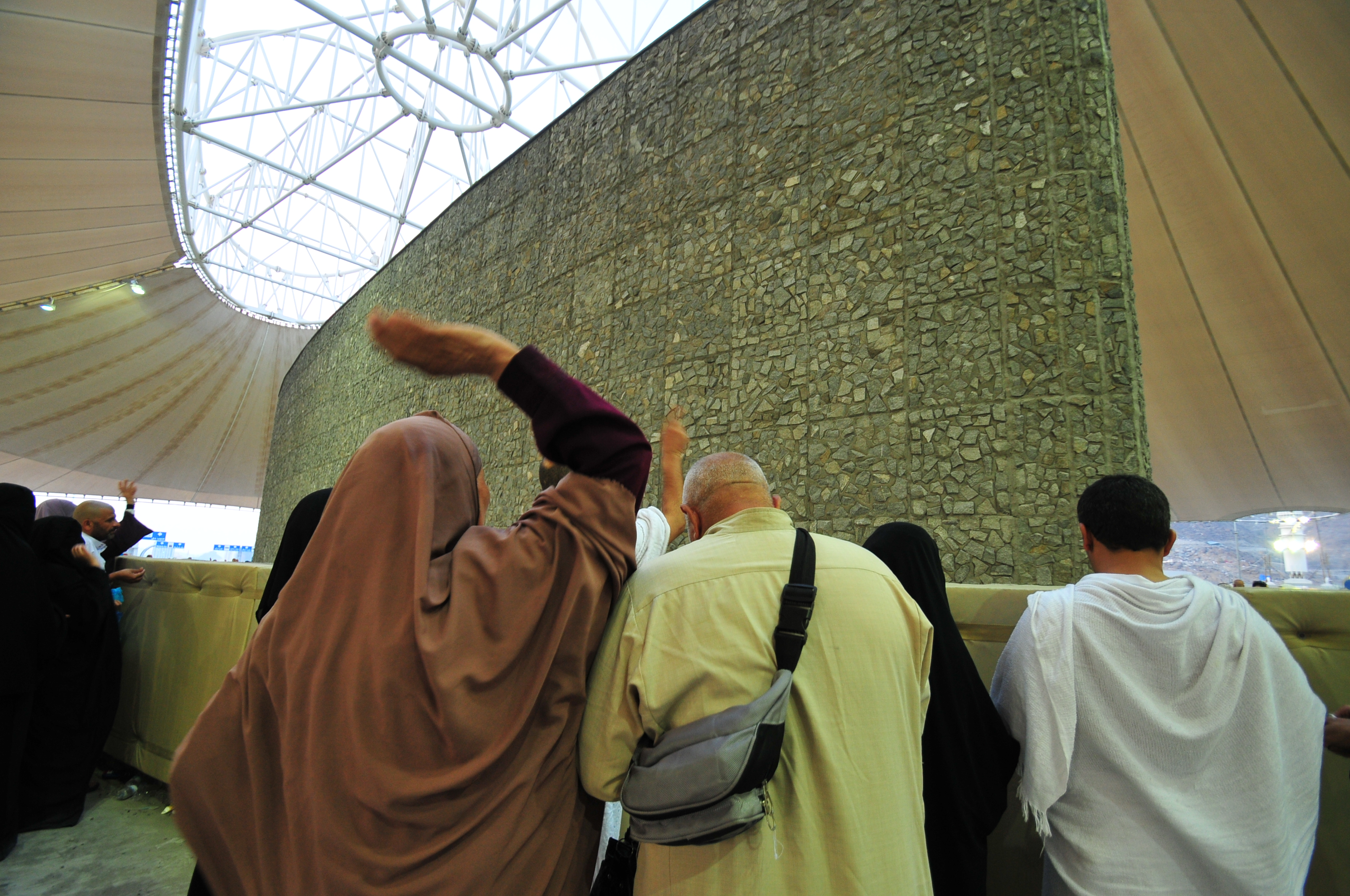 People are stoning the Devil